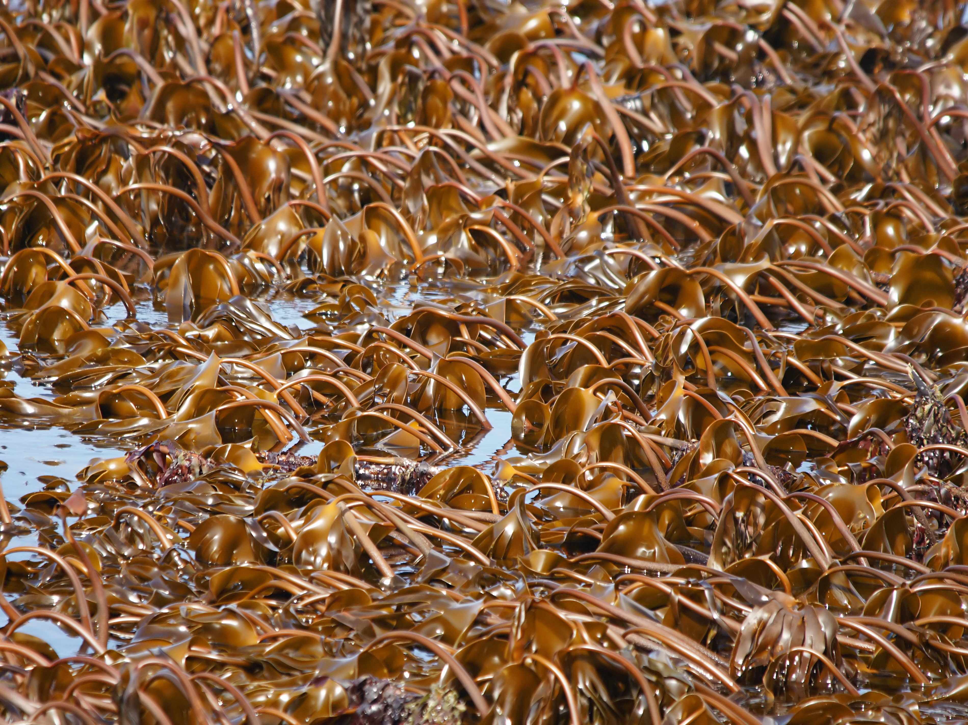 Oarweed near Hafnir, Iceland